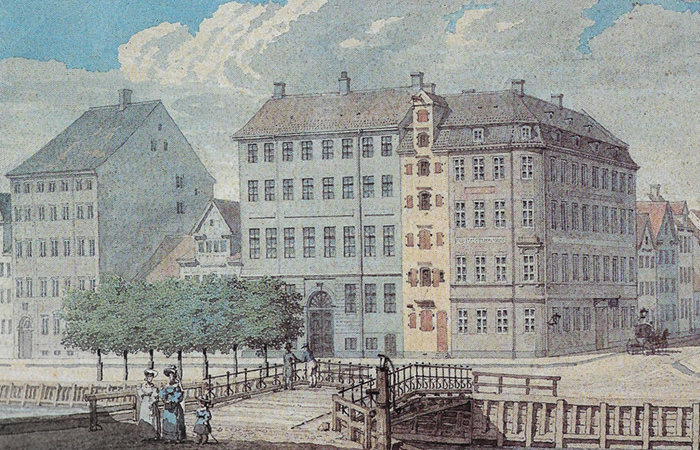 Snorrebroen and Overgaden Neden Vandet 33-41 in Copenhagen, Denmark